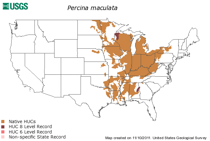 Distribution map of the fish Percina maculata, the blackside darter showing native and introduced watersheds.